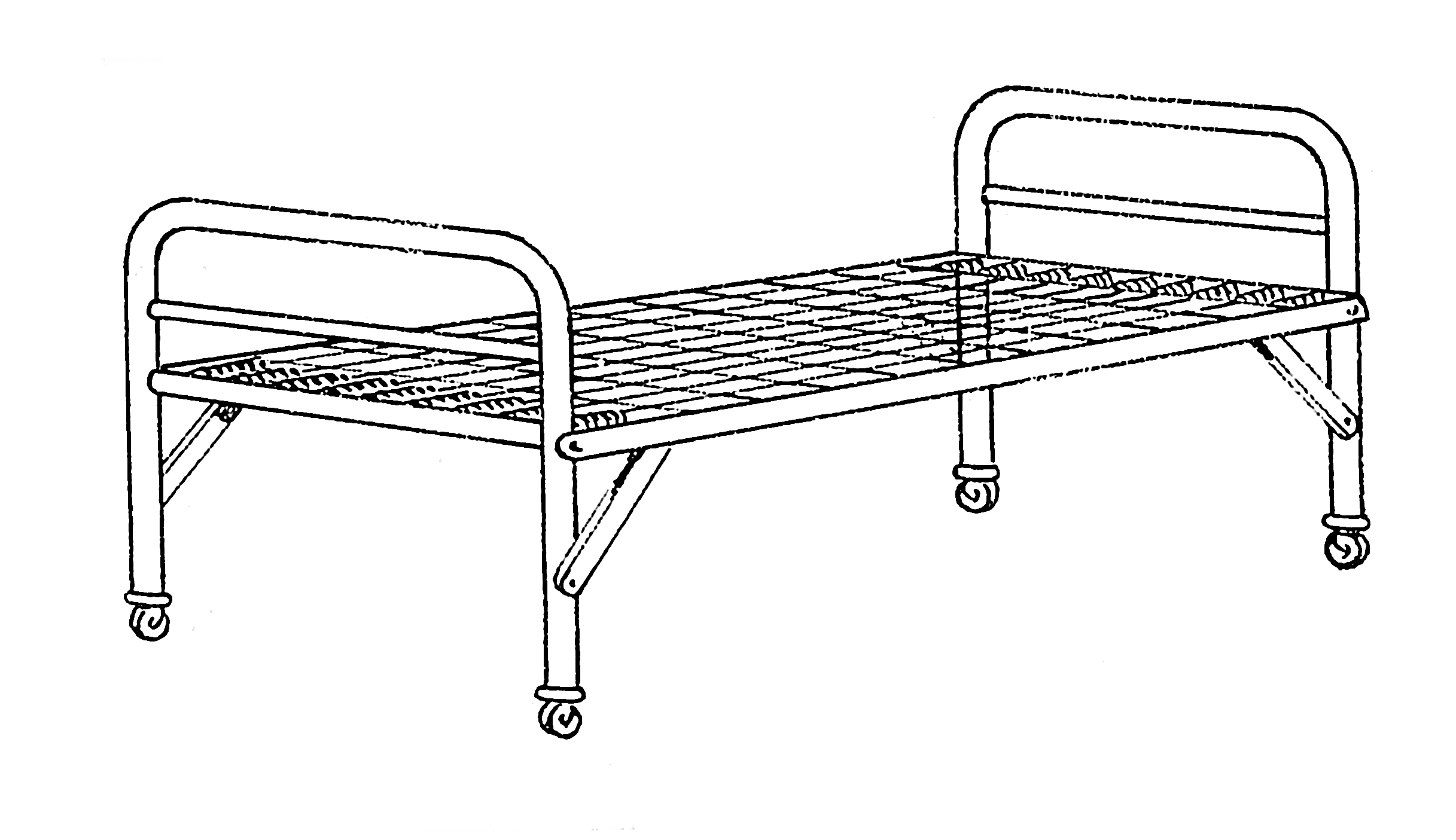 Line art drawing of a cot.